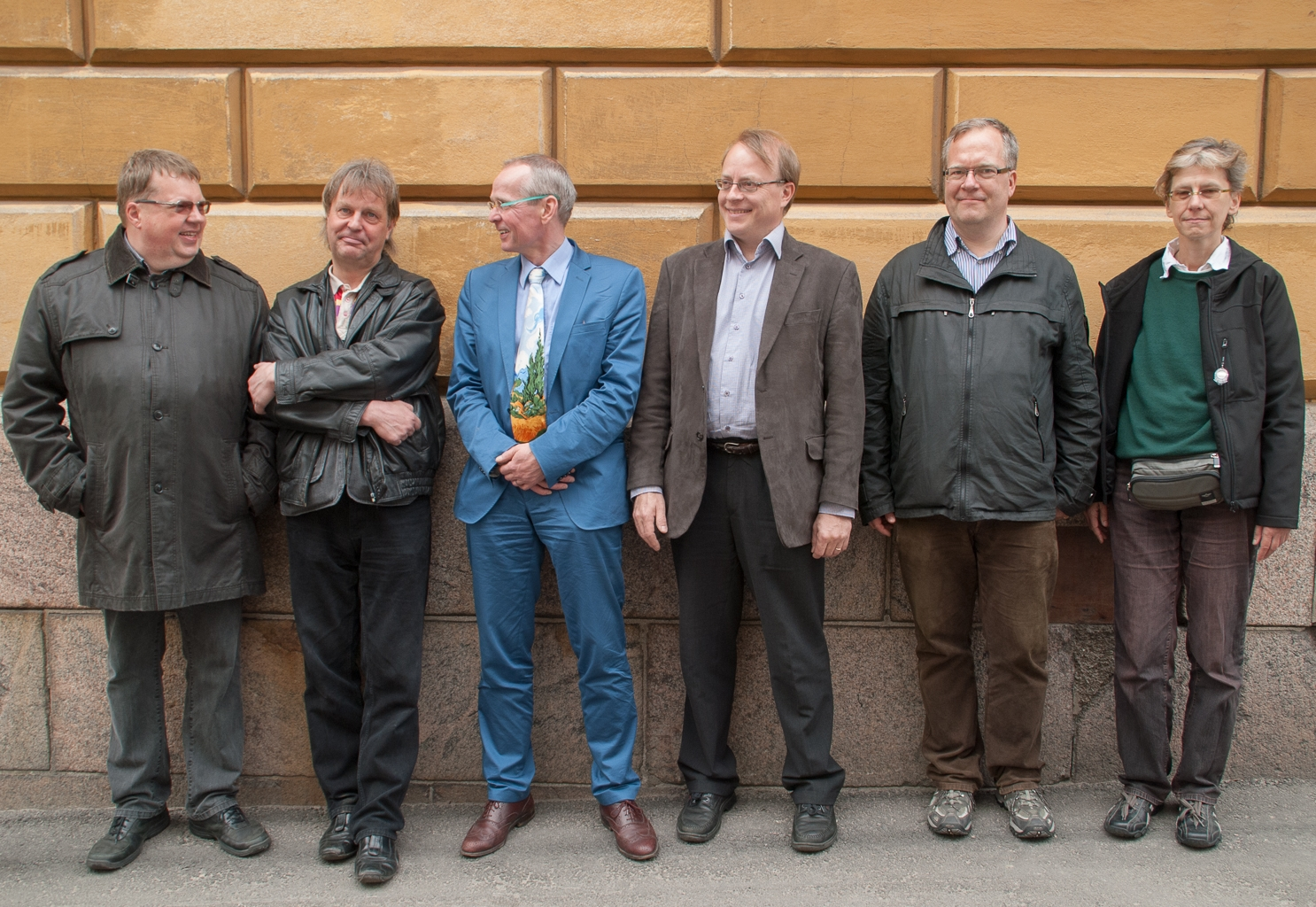 Editors of the journal 'Estonia' from 1988 in 2013